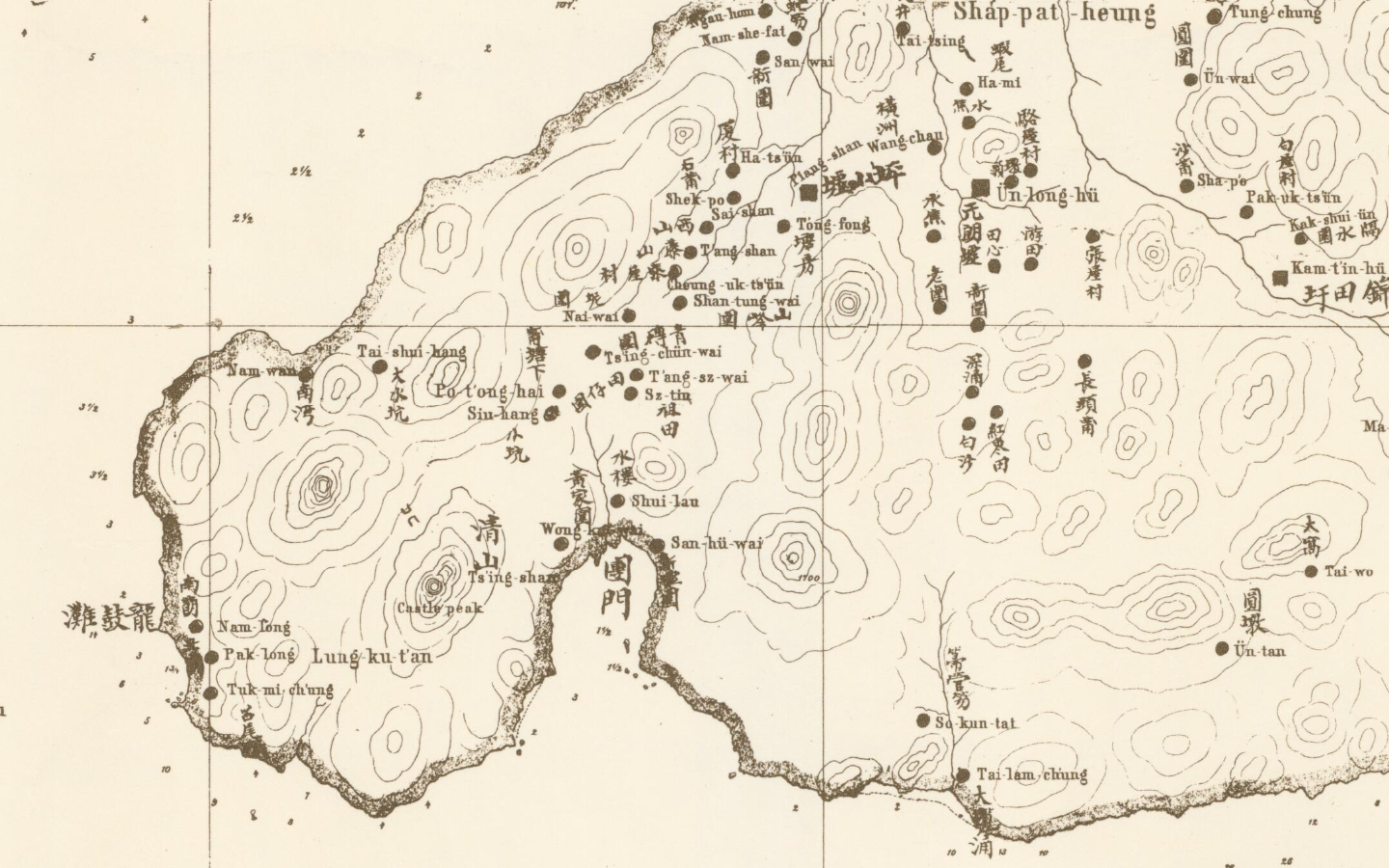 Map of Xin'an County made by Volonteri. Section enlarged to shown the modern day western New Territories of Hong Kong only.